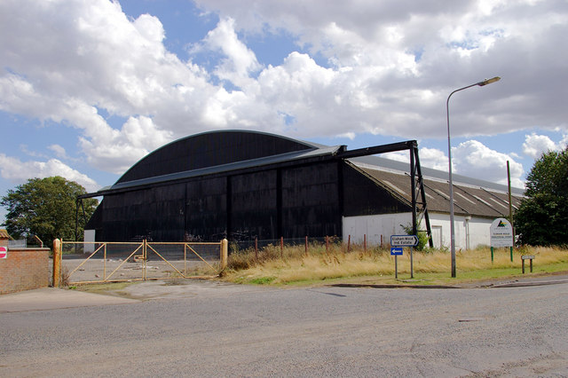 Elsham Wolds - Old J type Hangar This hangar on the Elsham Wolds Industrial Estate is a relic from the Bomber Command station of the RAF which originally occupied the site. It was built to drawing 5836/39, and they were designed for maintenance of large bomber aircraft.